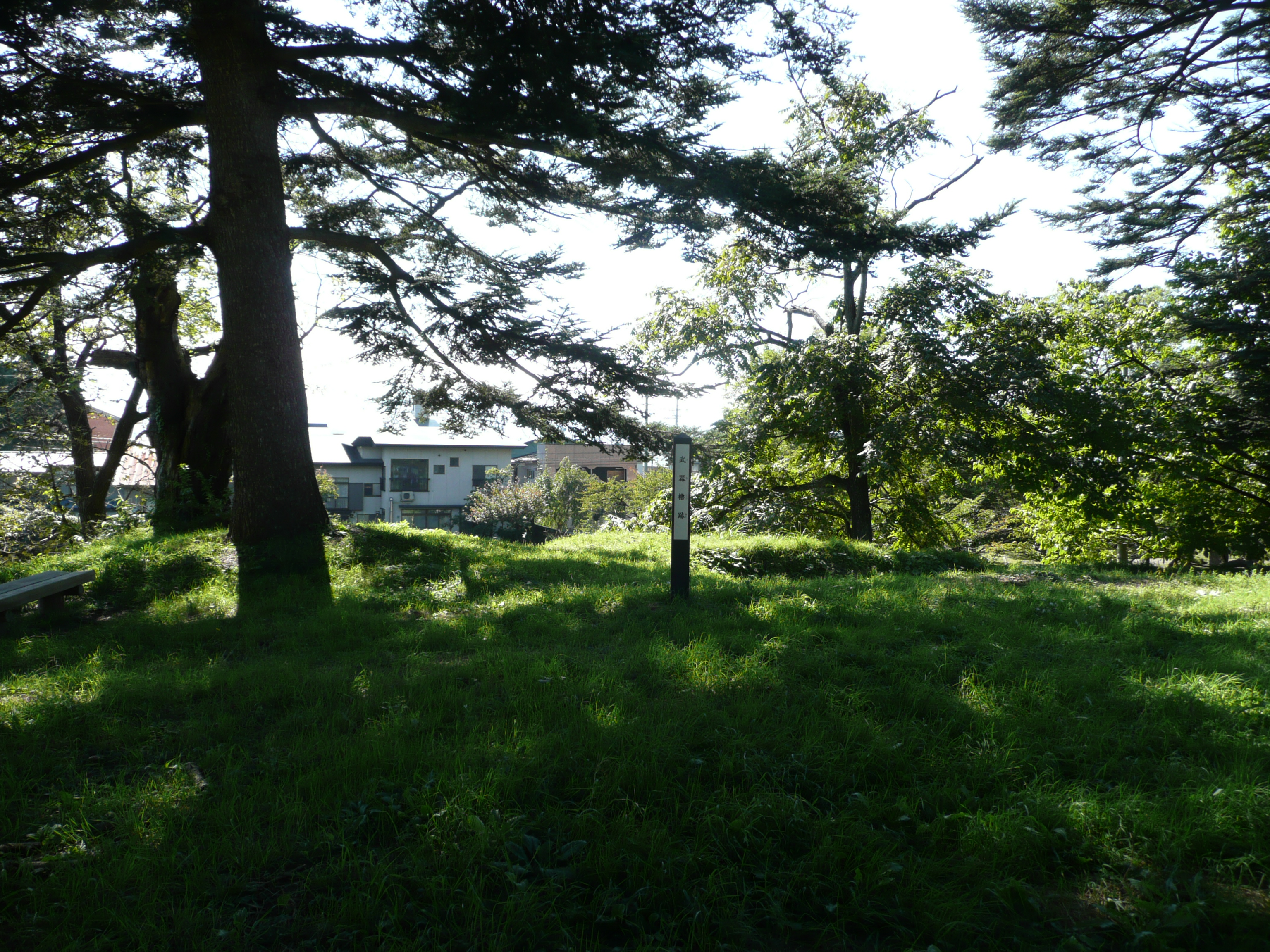 武器櫓跡